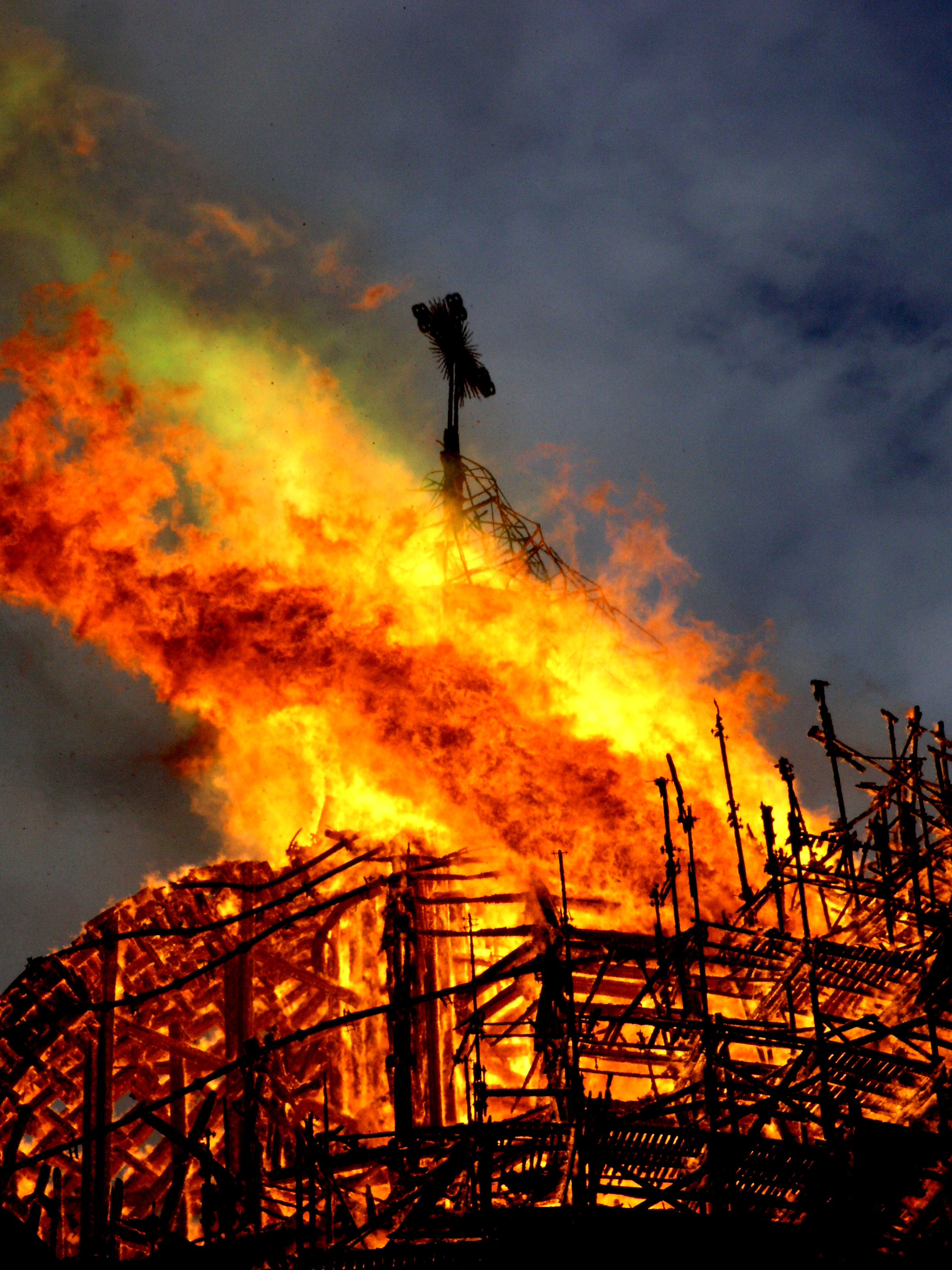 Fire of Trinity-Izmailovsky Cathedral, Saint-Petersbourg, on August 24, 2006.